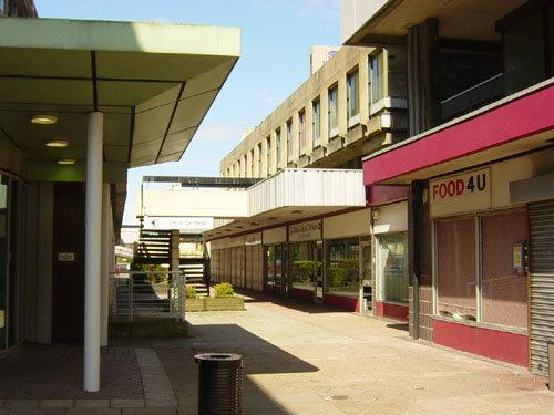 The Anderston Centre, Glasgow - showing the remains of the shopping plaza.